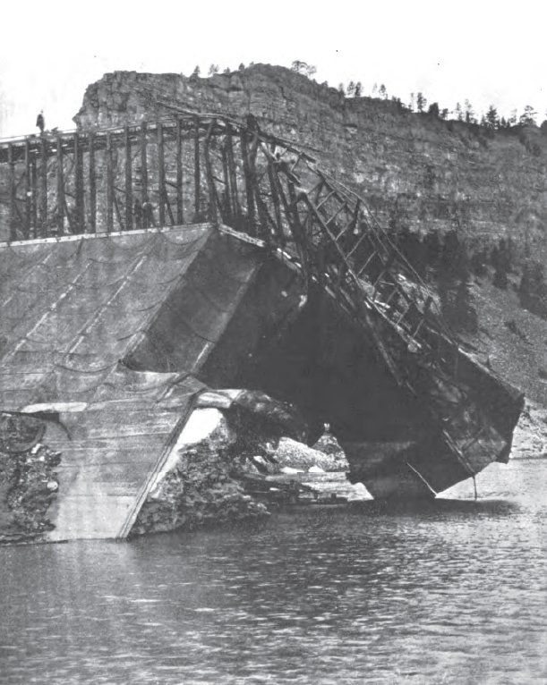 Looking downstream at the west end of Hauser Dam in Lewis & Clark County, Montana, United States, in 1908 after the steel dam's catastrophic failure on April 14, 1908. The concrete upstream face of the dam is visible, and at the center of the image the bedrock on which this portion of the dam was built.